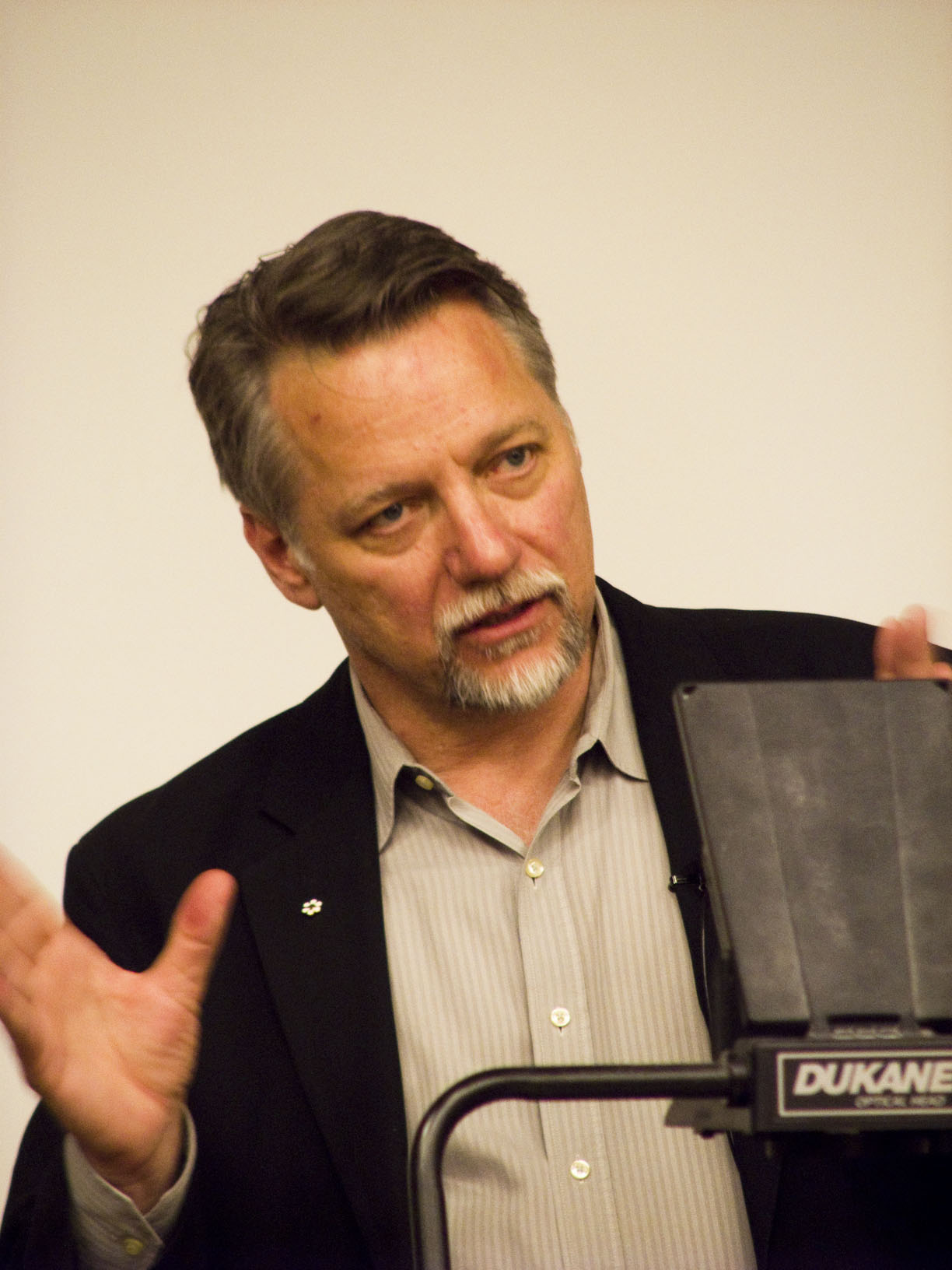 Ed Burtynsky came to Western. His photographs are made even more intimidating by his commentary.